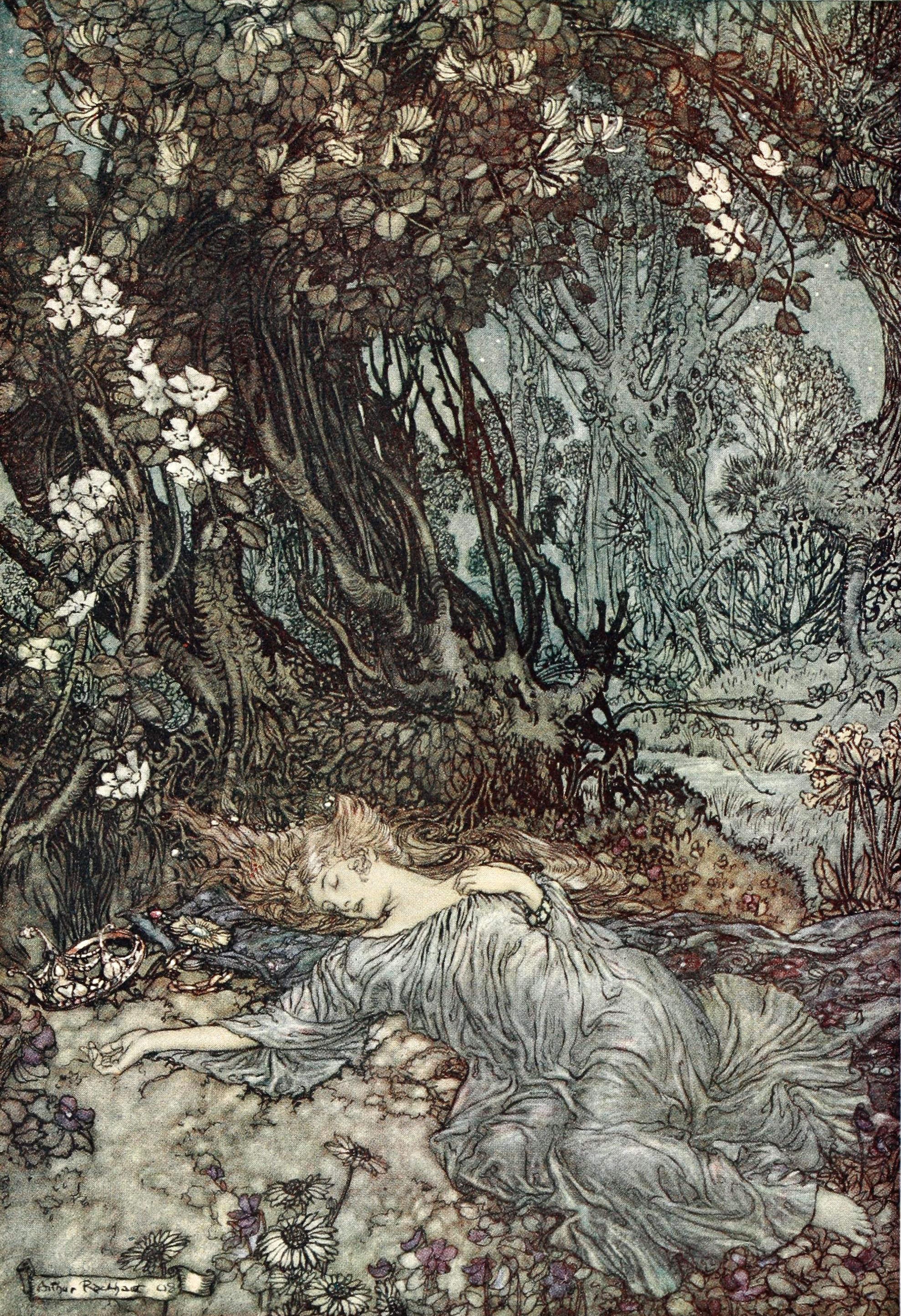 Illustration for A Midsummer Night's Dream